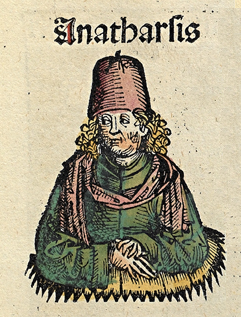 Woodcut from the Nuremberg Chronicle